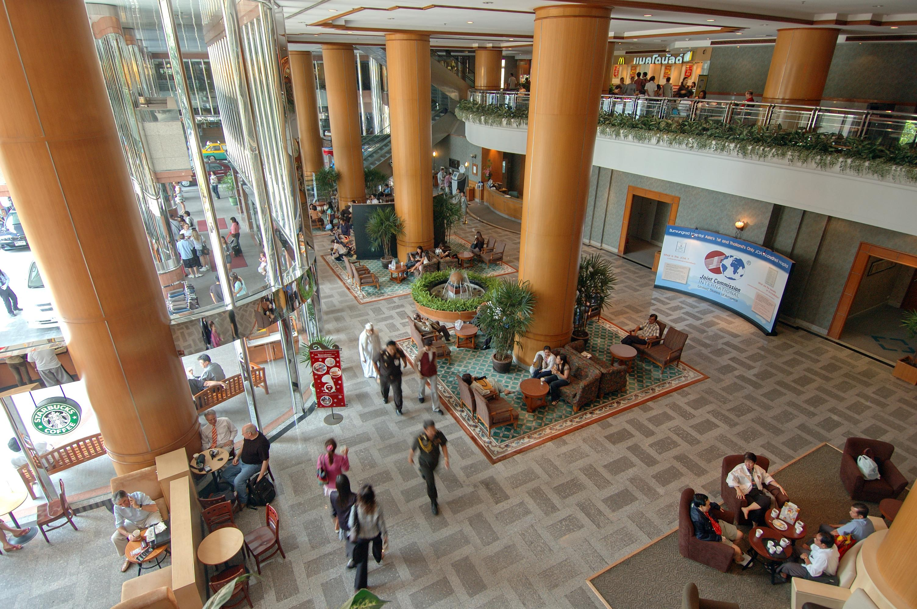 Interior Building - 5-star hotel alike hospital